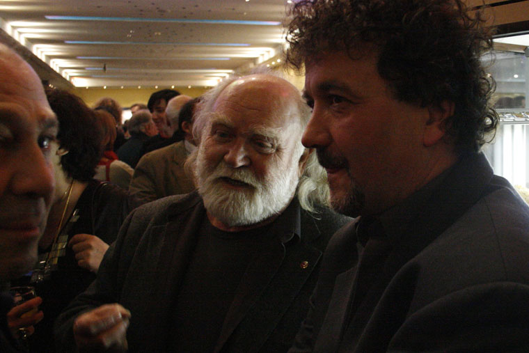 József Böjte film director, film producer, journalist and Péter Scherer Actor